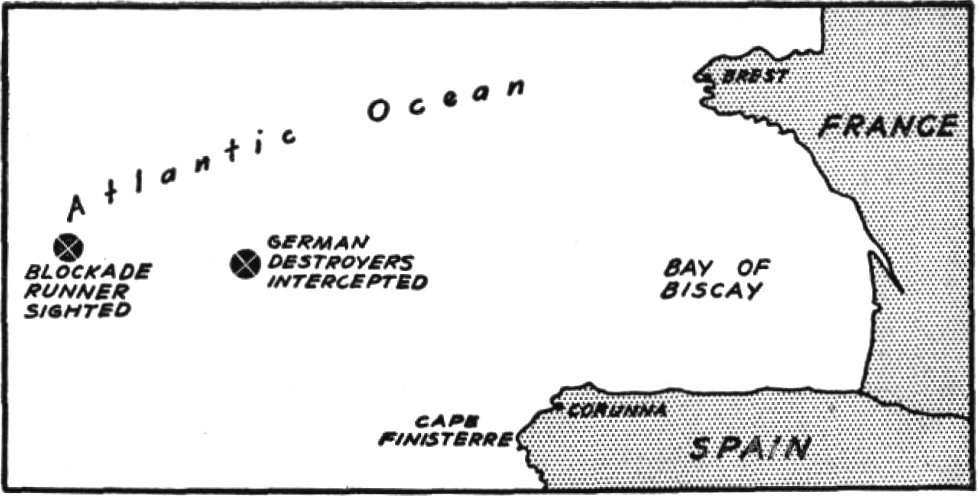 Contemporary map of the German "Operation Trave"/Battle of the Bay of Biscay in December 1943. The German 4th and 8th destroyer flotillas sailed into the Bay of Biscay to rendezvous with the blockade runner Alsterufer. However, Alsterufer was hit by a Consolidated Liberator of No.311 Squadron RAF and sank on 27 December 1943 without notice the German Navy. Two cruisers of the Allied operation to catch the blockade runners, "Operation Stonewall", HMS Glasgow (C21) and HMS Enterprise (D52), intercepted the destroyers on 28 December 1943. In heavy seas, the German destroyer Z27 and the torpedo boats T26 and T27 were sunk in the ensuing "Battle of the Bay of Biscay".